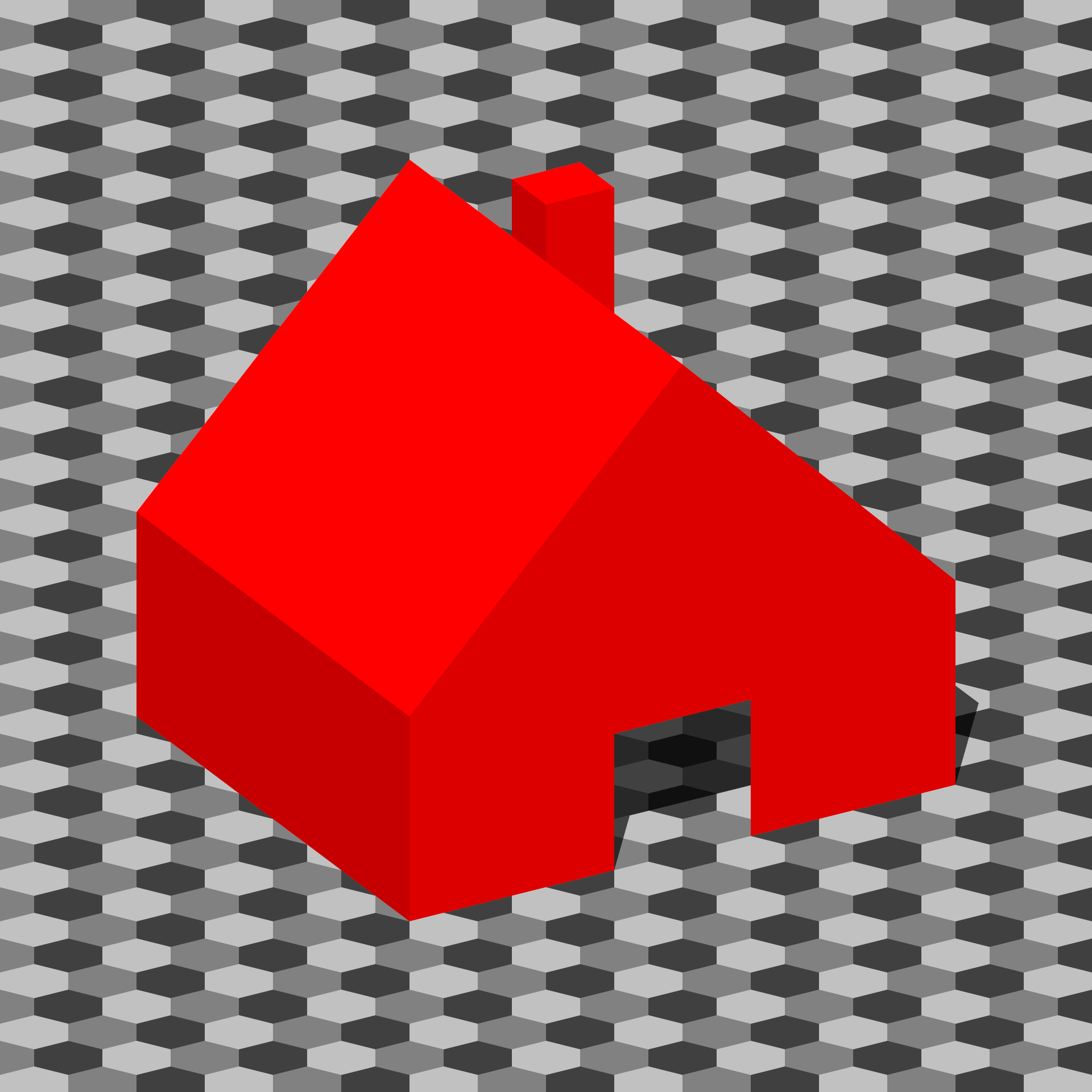 Trimetric hexagonal grid such as the one used in the video game Fallout. The lighting is approximated, as I have not found a good way to take accurate measurements yet. (The game is also inconsistent in its use of lighting.)